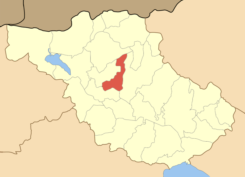 Locator map of Leykonas municipality in Serres perfecture in Greece.